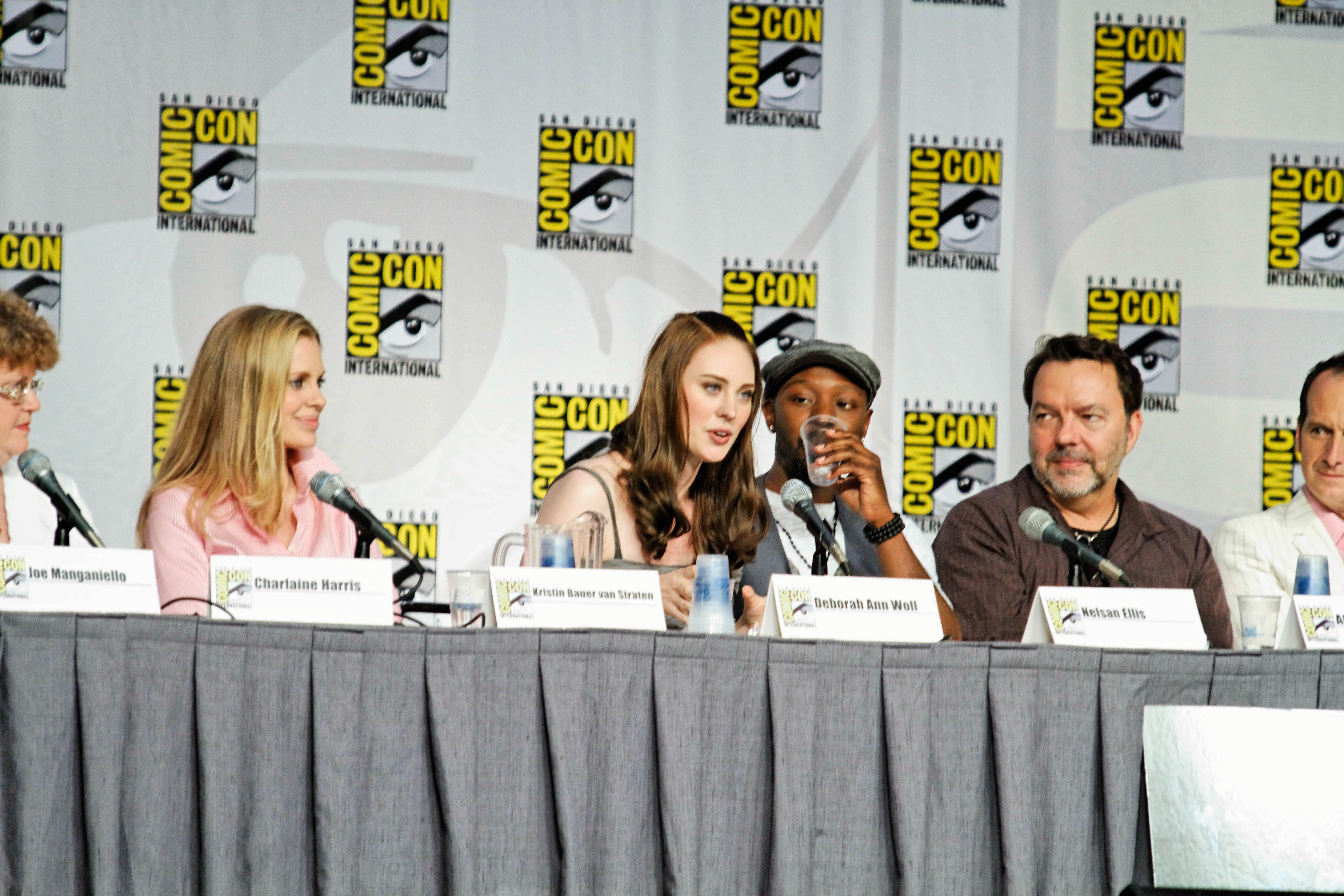 True Blood Panel at 2010 Comic-Con International